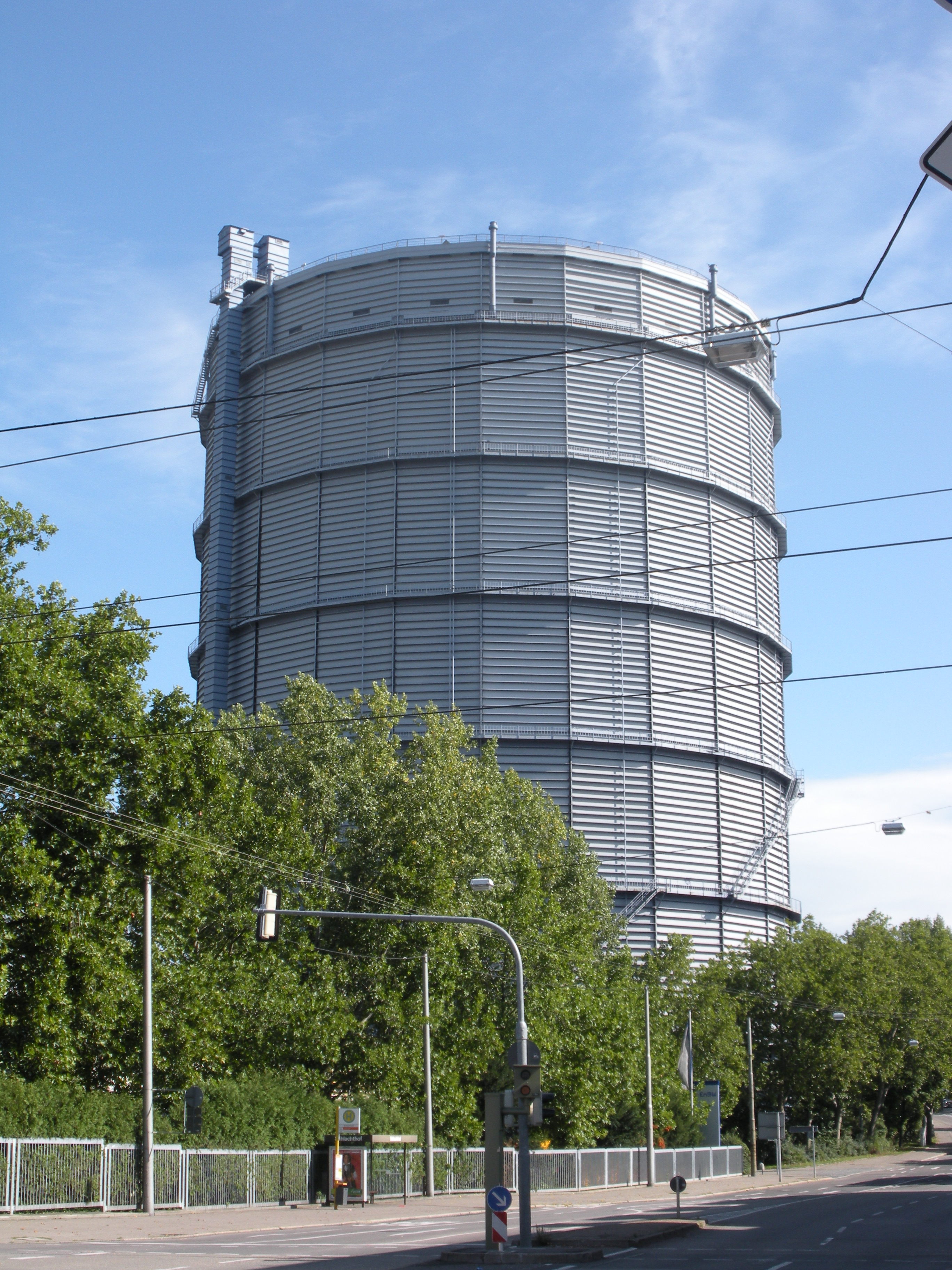 Tank of Gas in Stuttgart-East